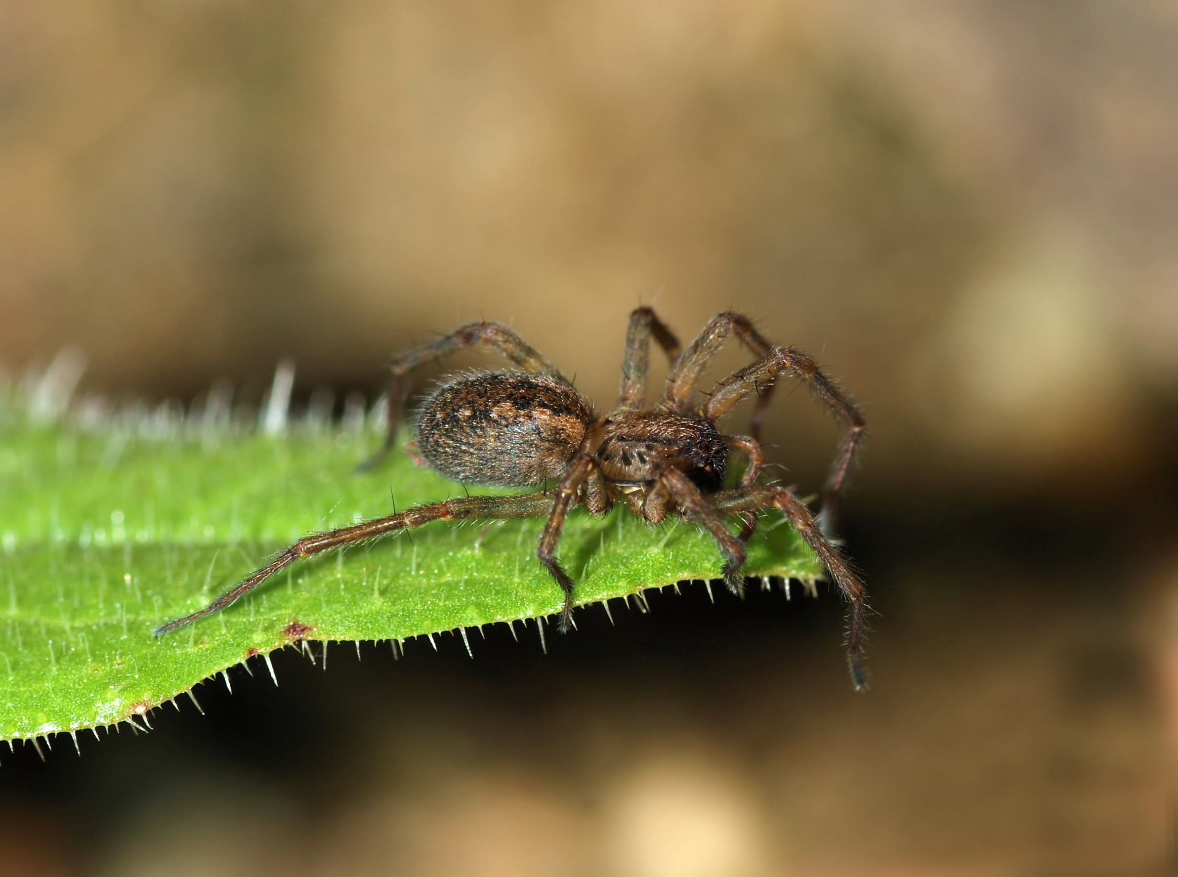 Tegenarea feminea